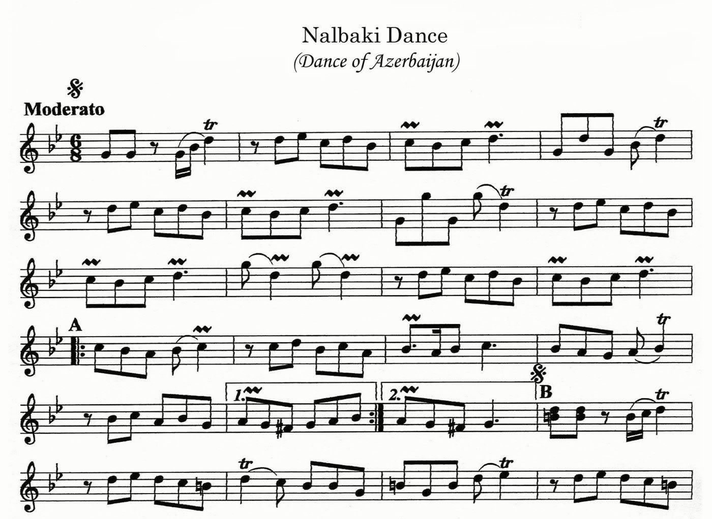 Azerbaijan folk dance Nalbaki